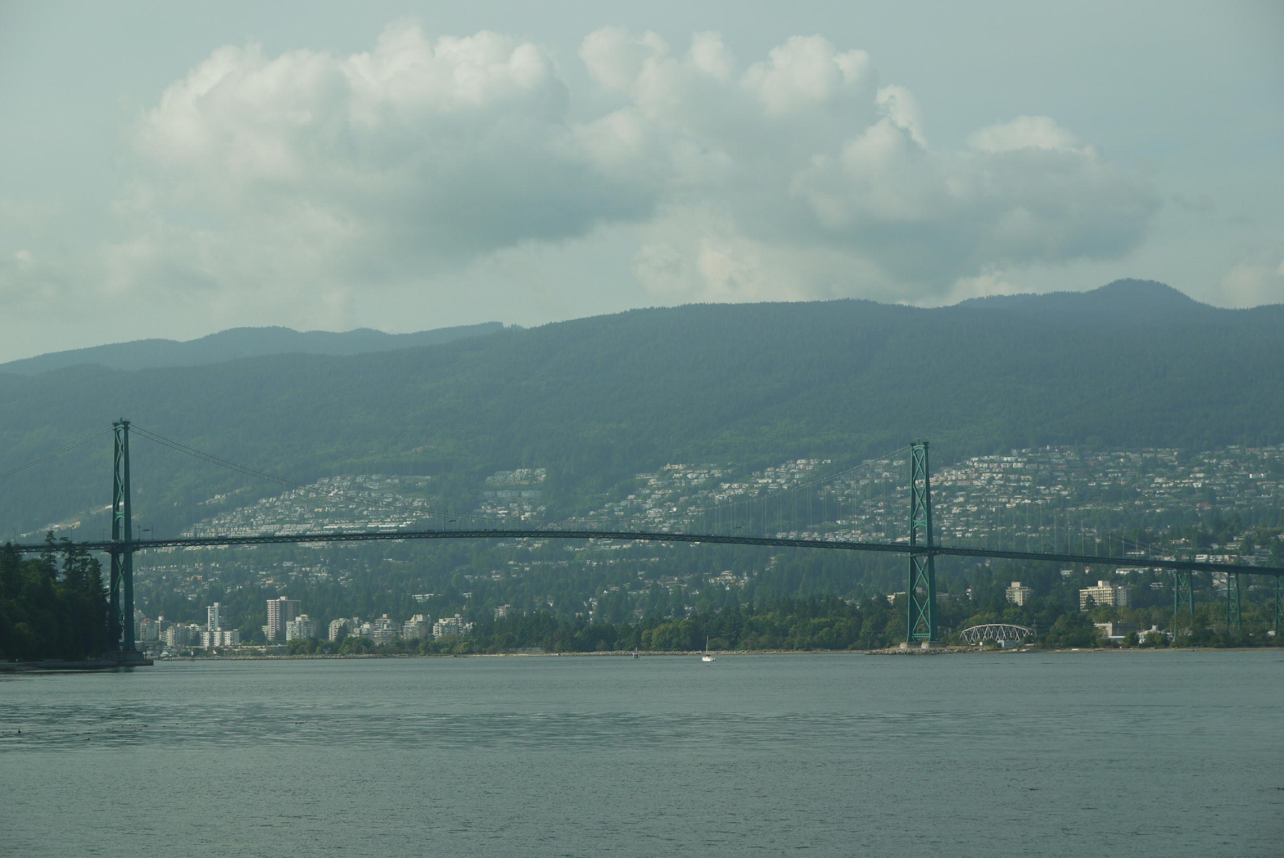 Lions Gate Bridge (Vancouver)